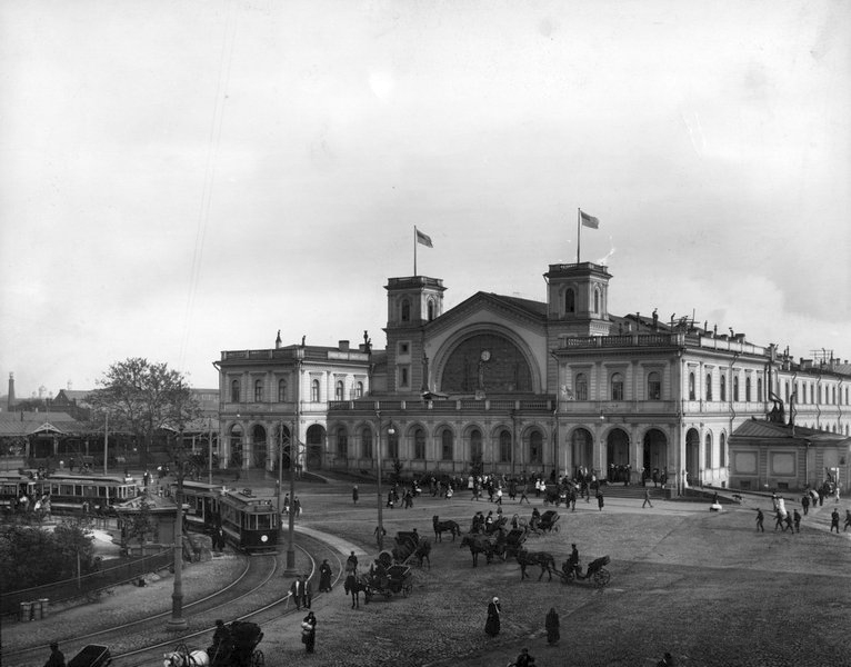 Tram stop near Baltic rail terminal. 1909.